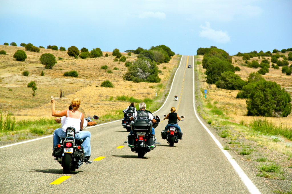 Waving from motorcycle on open road.